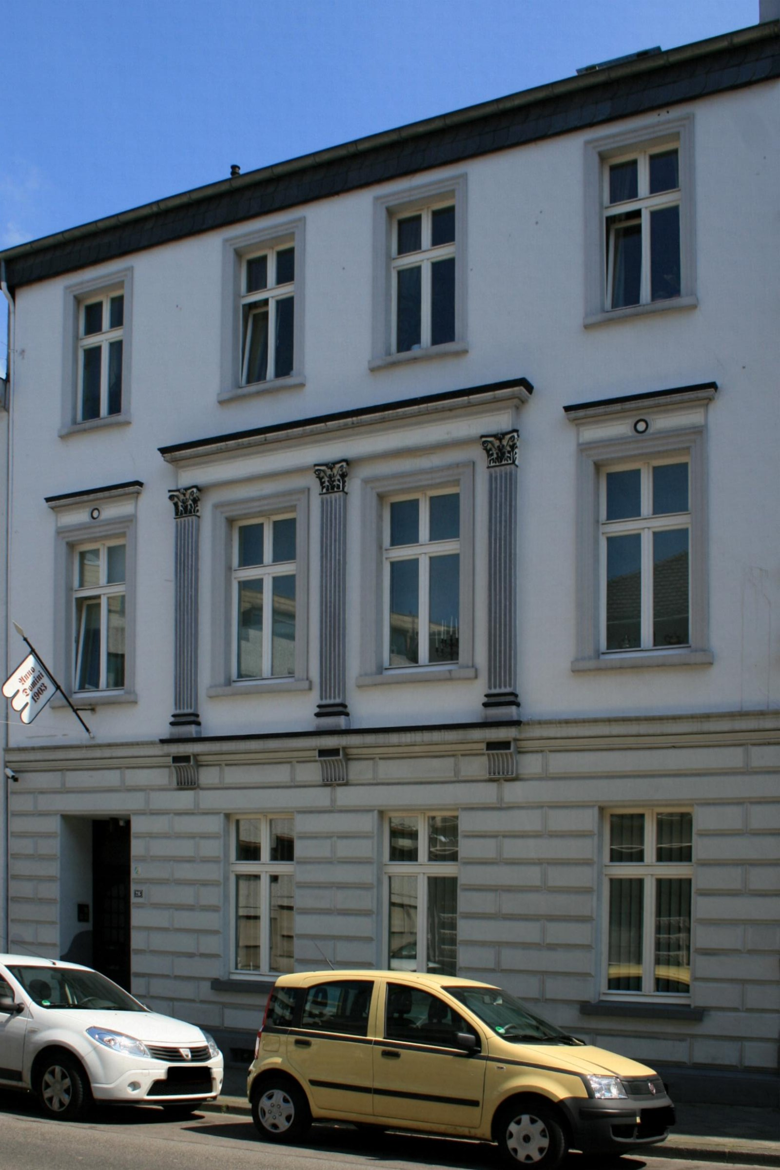 Cultural heritage monument No. R 006 in Mönchengladbach